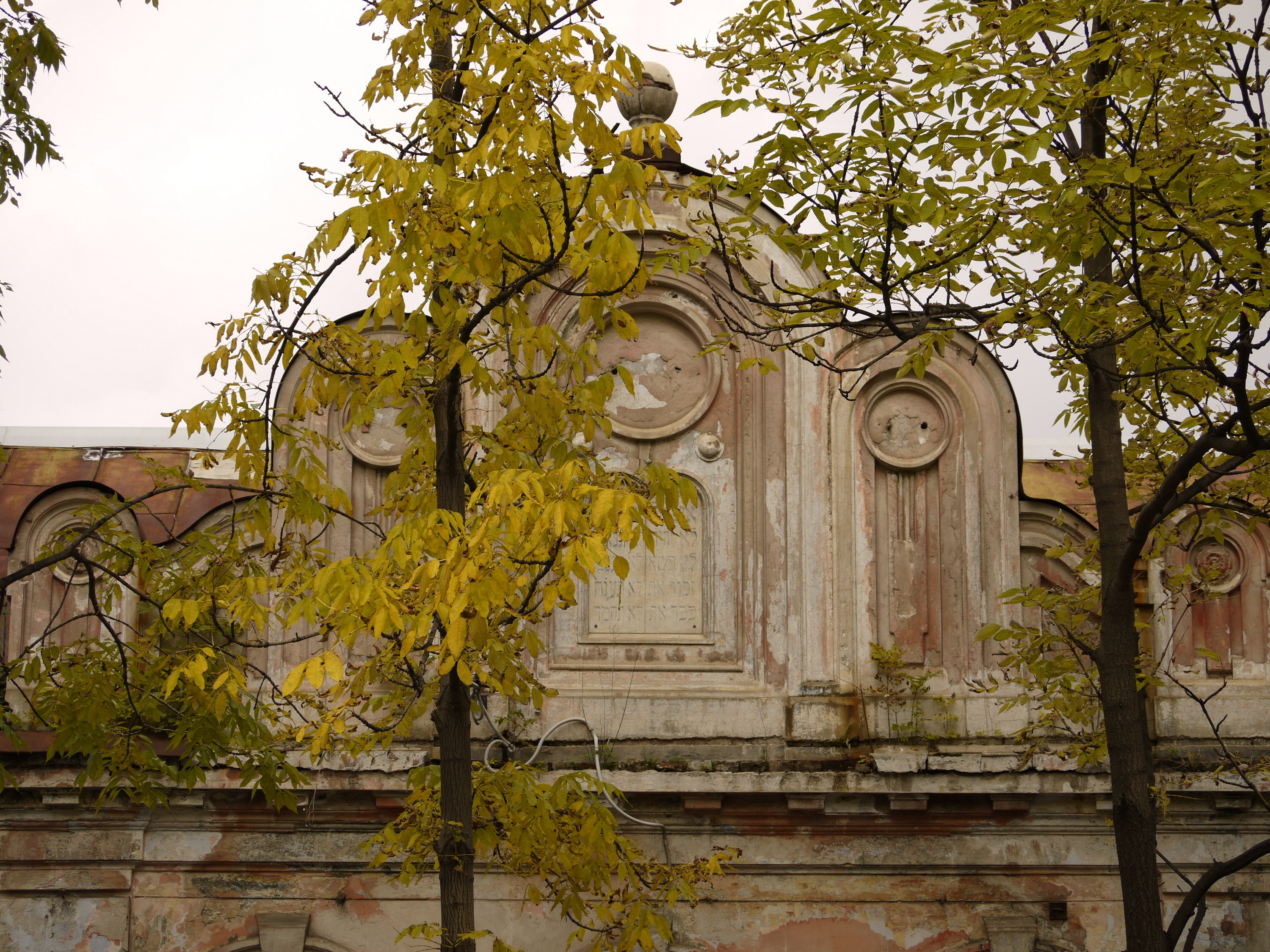 Vladivostok, 5 Praporshchika Komarova st. Synagogue, a part of facade